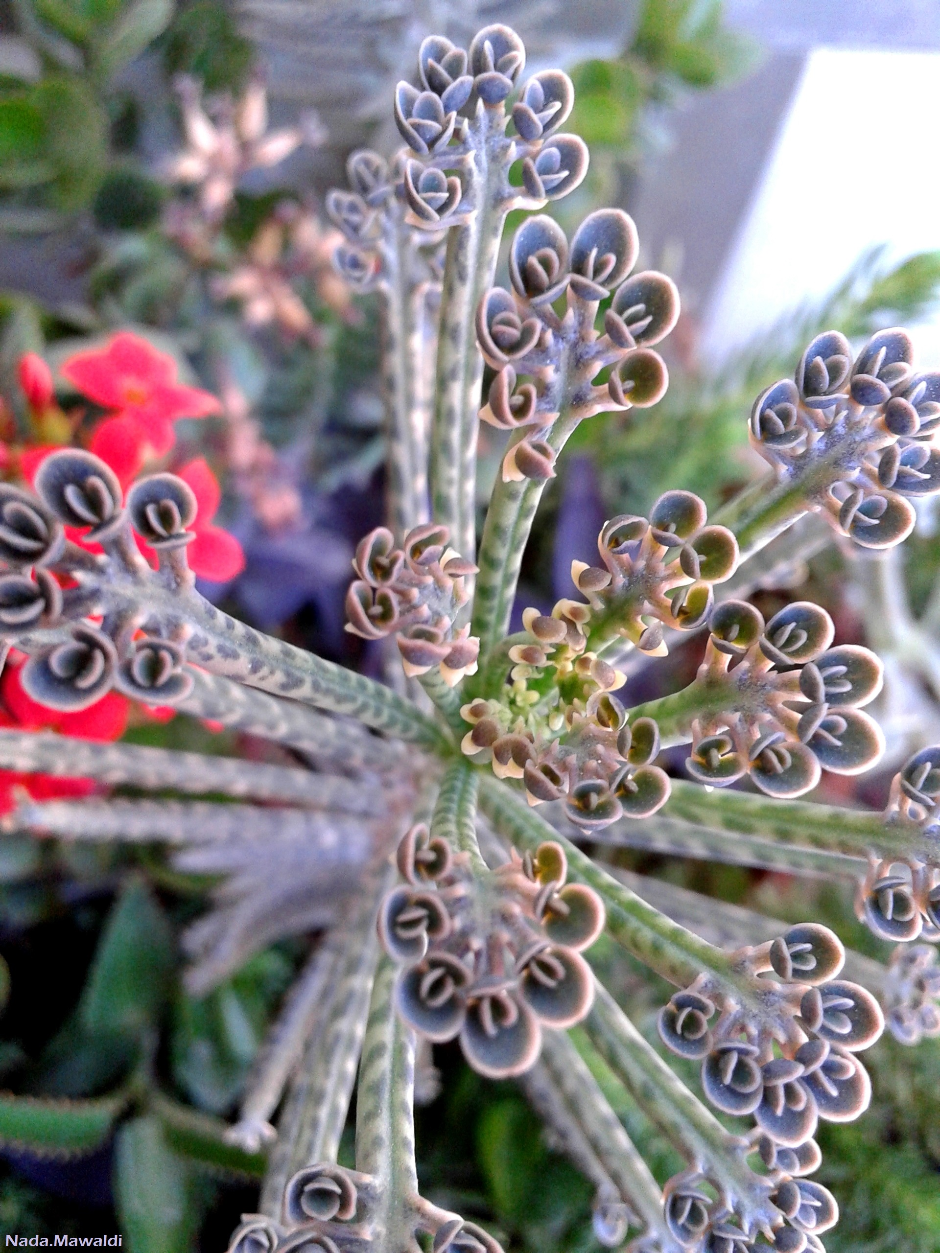 Bryophyllum delagoense is a succulent plant native to Madagascar. Its common names are mother of millions, devil's backbone, and Chandelier plant.